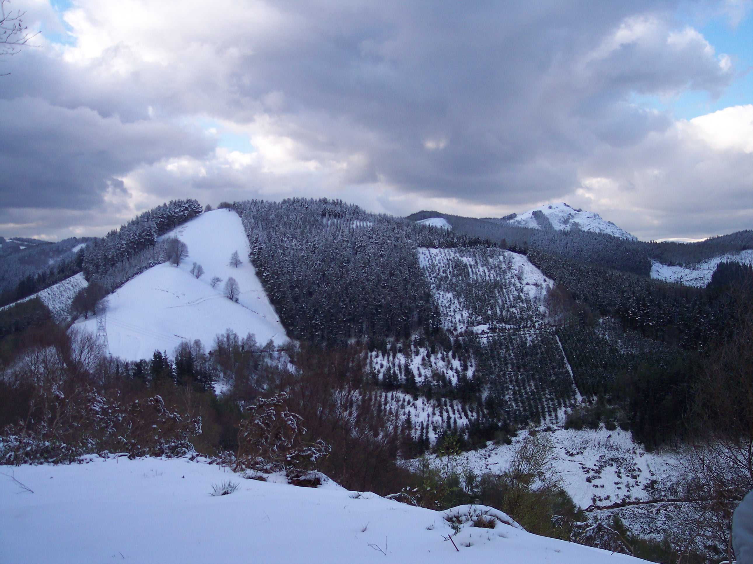 Zormendi, under the snow, viewed from mount Usurbe. The highest mountain, on the right-hand side, is Murumendi.